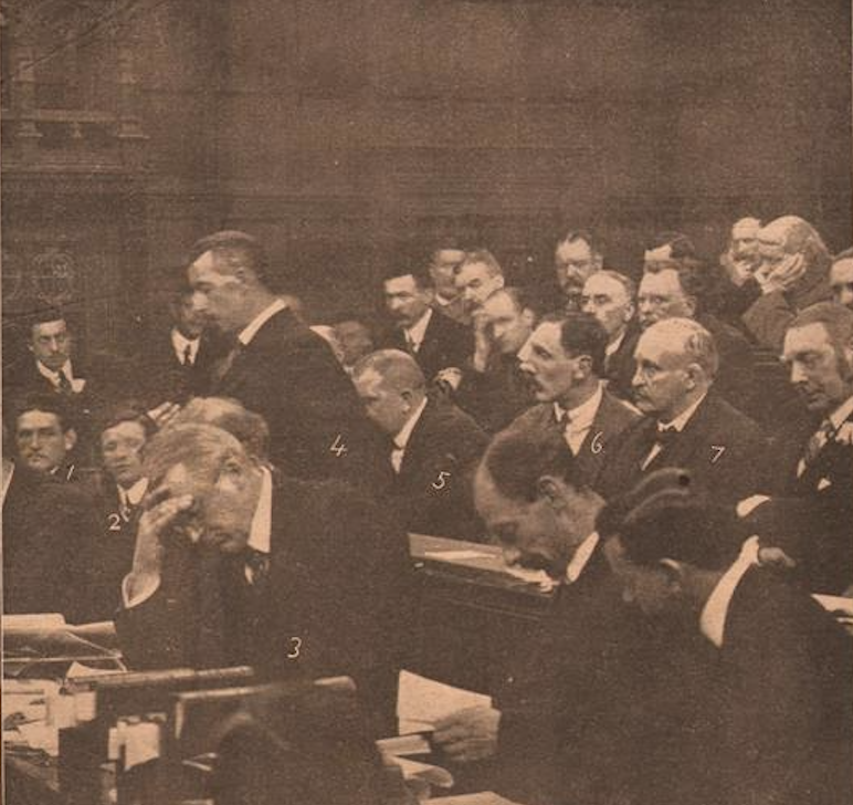 Bettinson (background, centre) is sat next to Lord Lonsdale (far right) at the question of whether Driscoll v Moran was boxing or a prize fight. 1911.